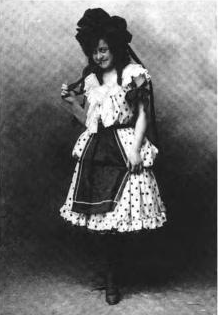 "Anna Laughlin as Dorothy in the musical extravaganza The Wizard of Oz, 1902"